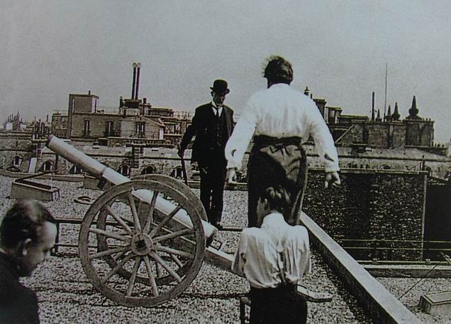 Erik Satie, Renee Clair, Francis Picabia, "Relache" 1924 november